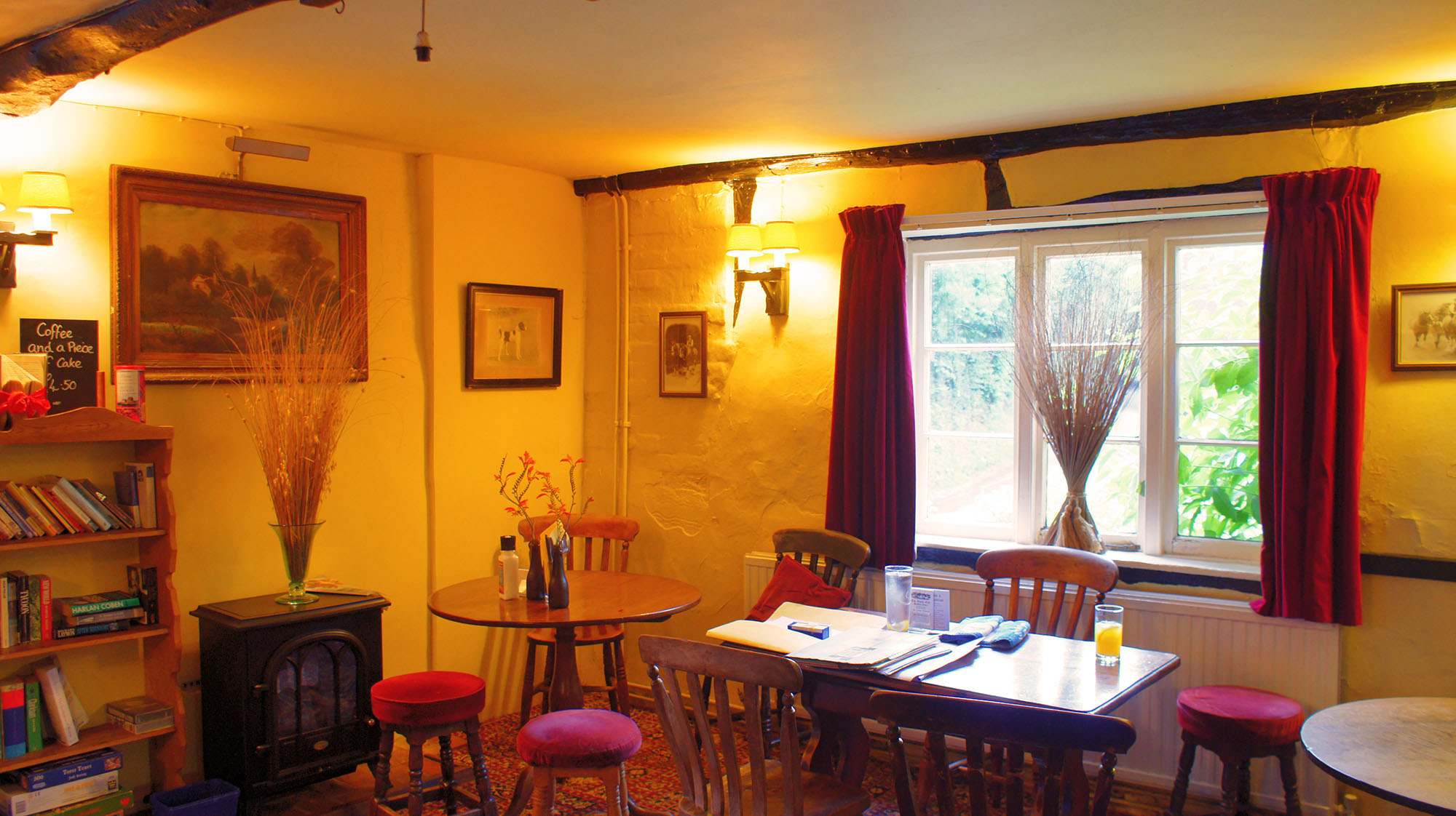 Inside The Royal Oak